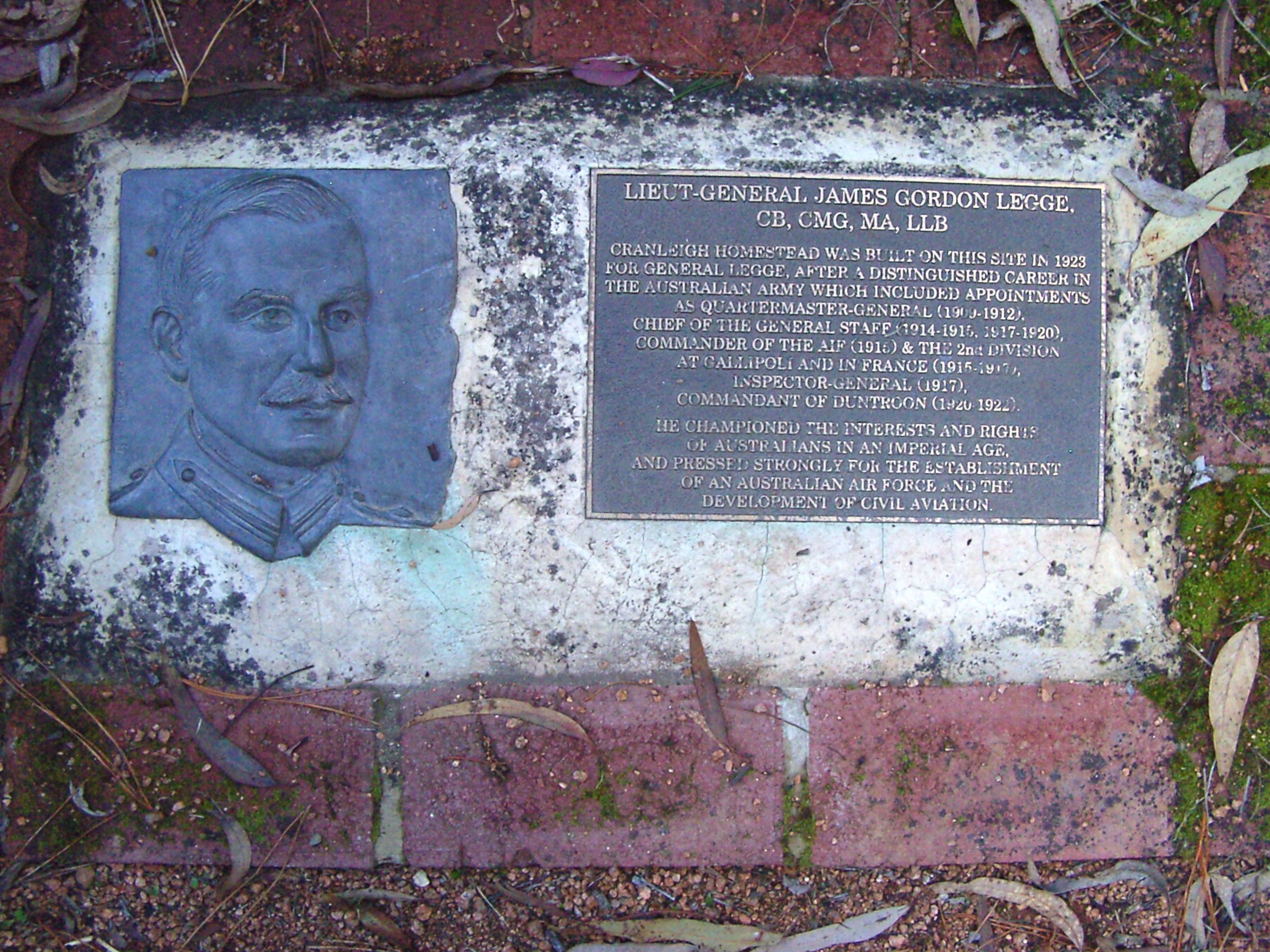 Memorial to Lieutenant General James Gordon Legge, at the remnants of the James_Gordon_Legge#CranleighCranleigh farm, Latham, Australian Capital Territory.